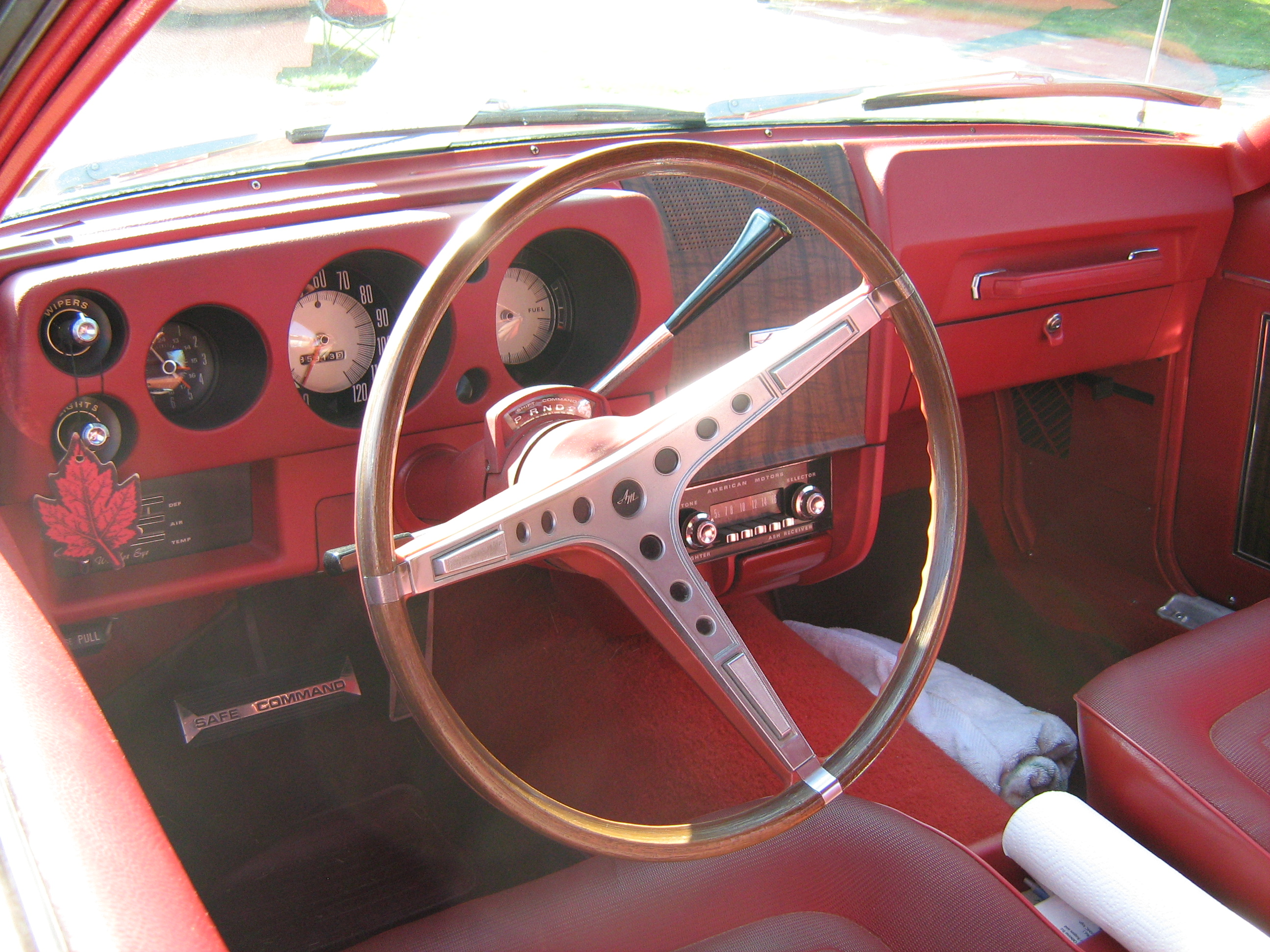 1969 Javelin SST model by American Motors (AMC) - a "pony car". This Javelin is an early model year production and also has a column-mounted automatic transmission.